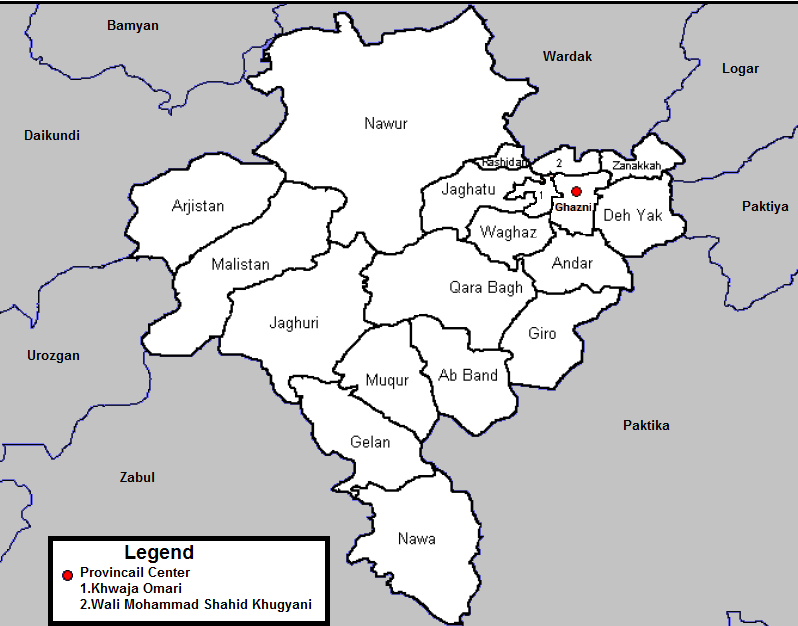 Ghazni District Map